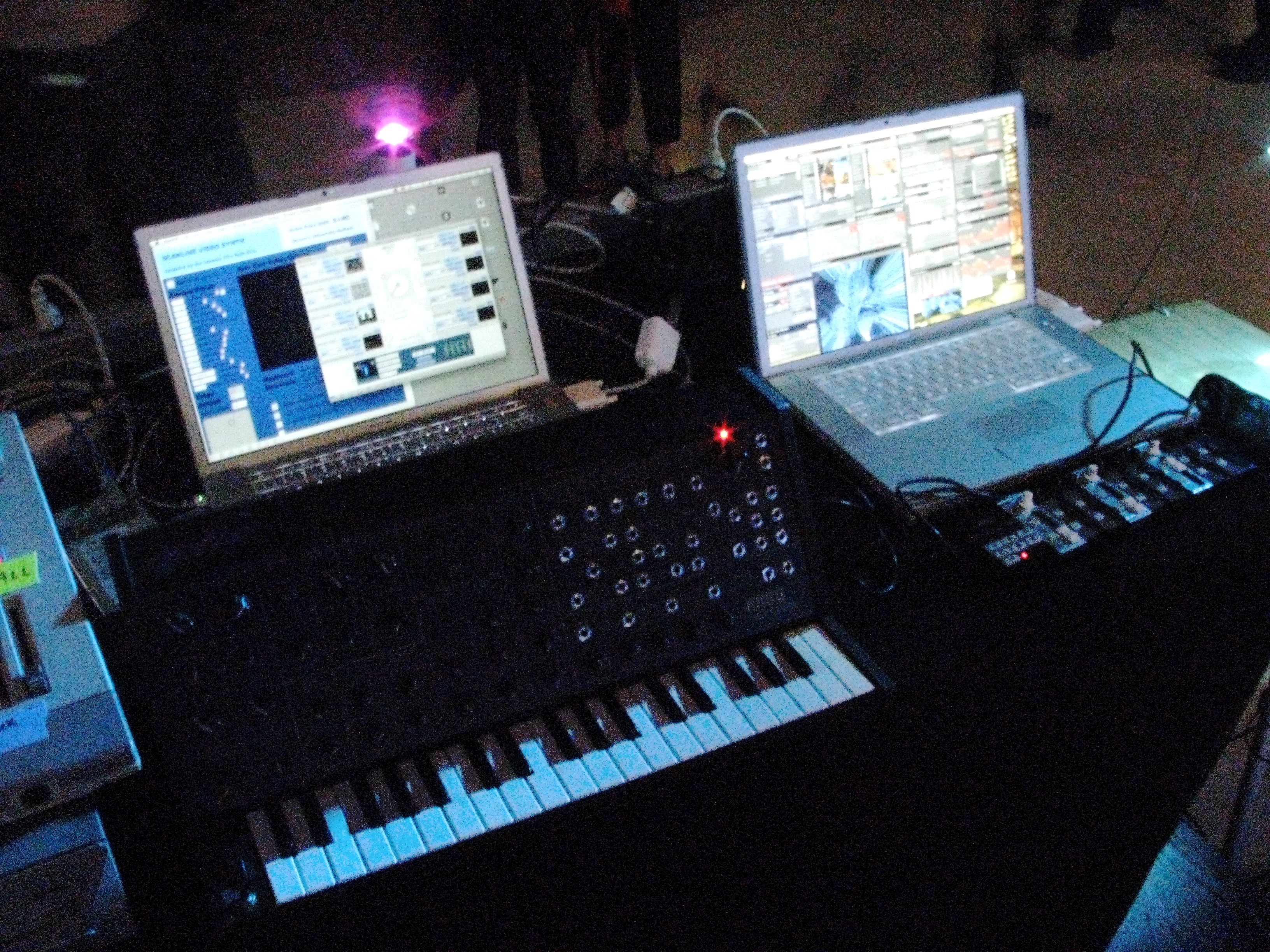 Using this fake Korg MS-20 I stole form Alex as a controller (the knobs are real nice!) Running my video switcher jitter patch (dadeo) into Rutt Etra simulator jitter patch by Robin Price. Max for DJing on MacBook Pro Korg MS-20 controller from Korg Legacy Collection Jitter for VJing on MacBook Pro unknown controller